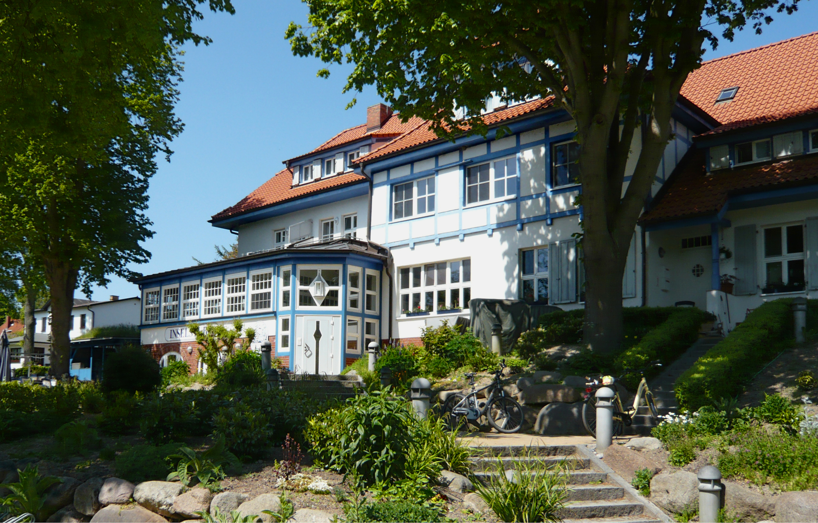 Half-timbered house "Dornbusch" in Kloster, village on the island Hiddensee in Mecklenburg-Vorpommern, Germany.